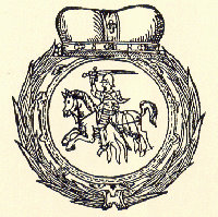 Pahonia - symbol of Grand Duchy of Lithuania. Coat of arms from Code of Laws, 1588.